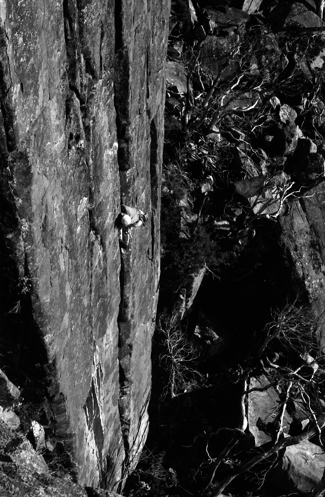 First ascent of Savage Journey, Lost World Mt Wellington Tasmania by Henry Barber in 1975